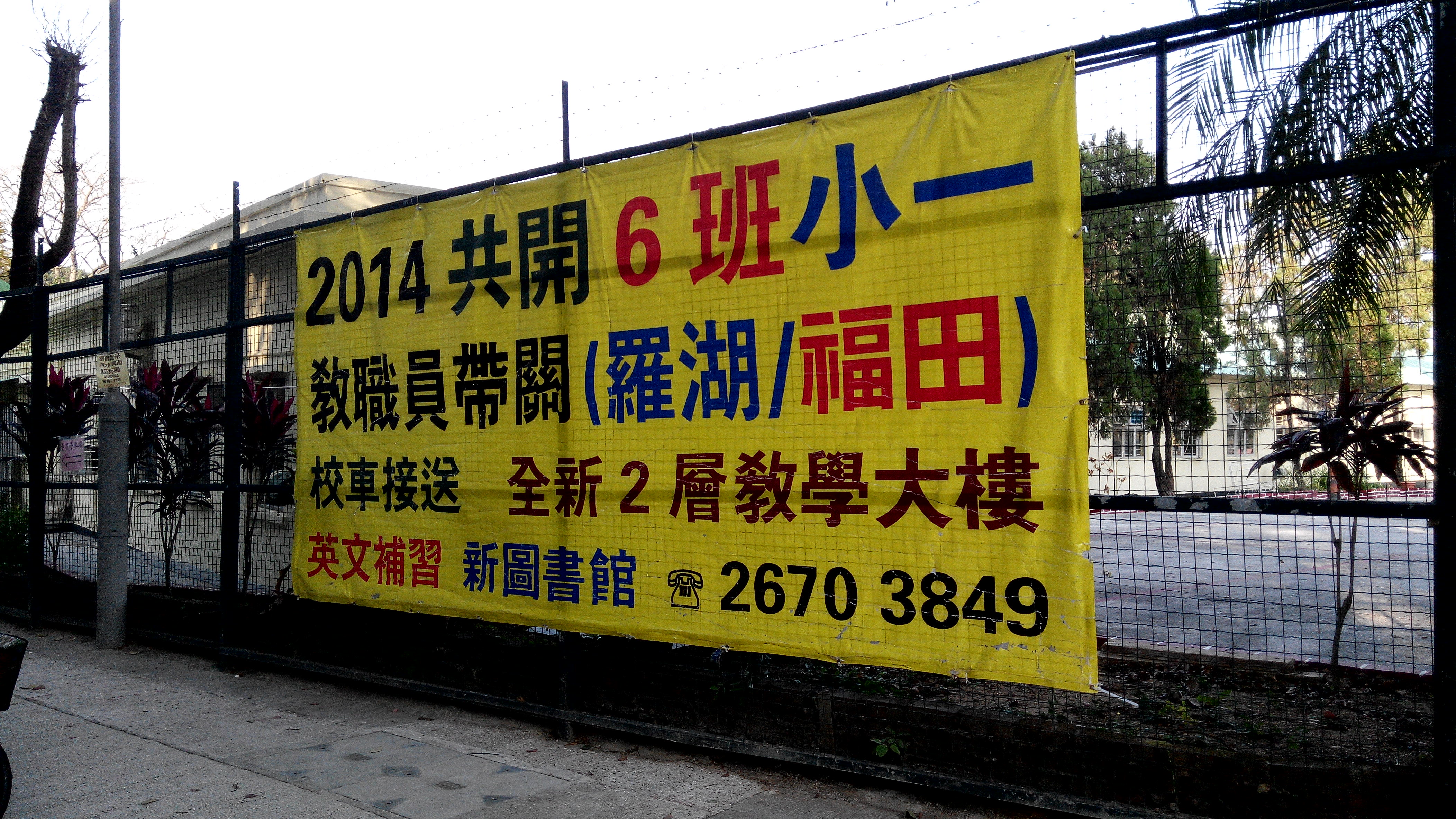 Kam Tsin Village Ho Tung School, 2014